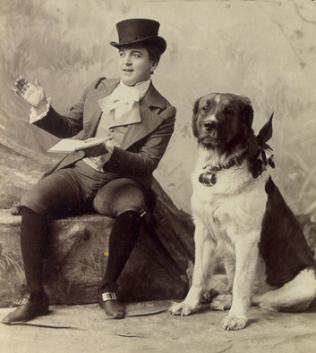 Philip H. Ward Collection of Theatrical Images, 1856-1910